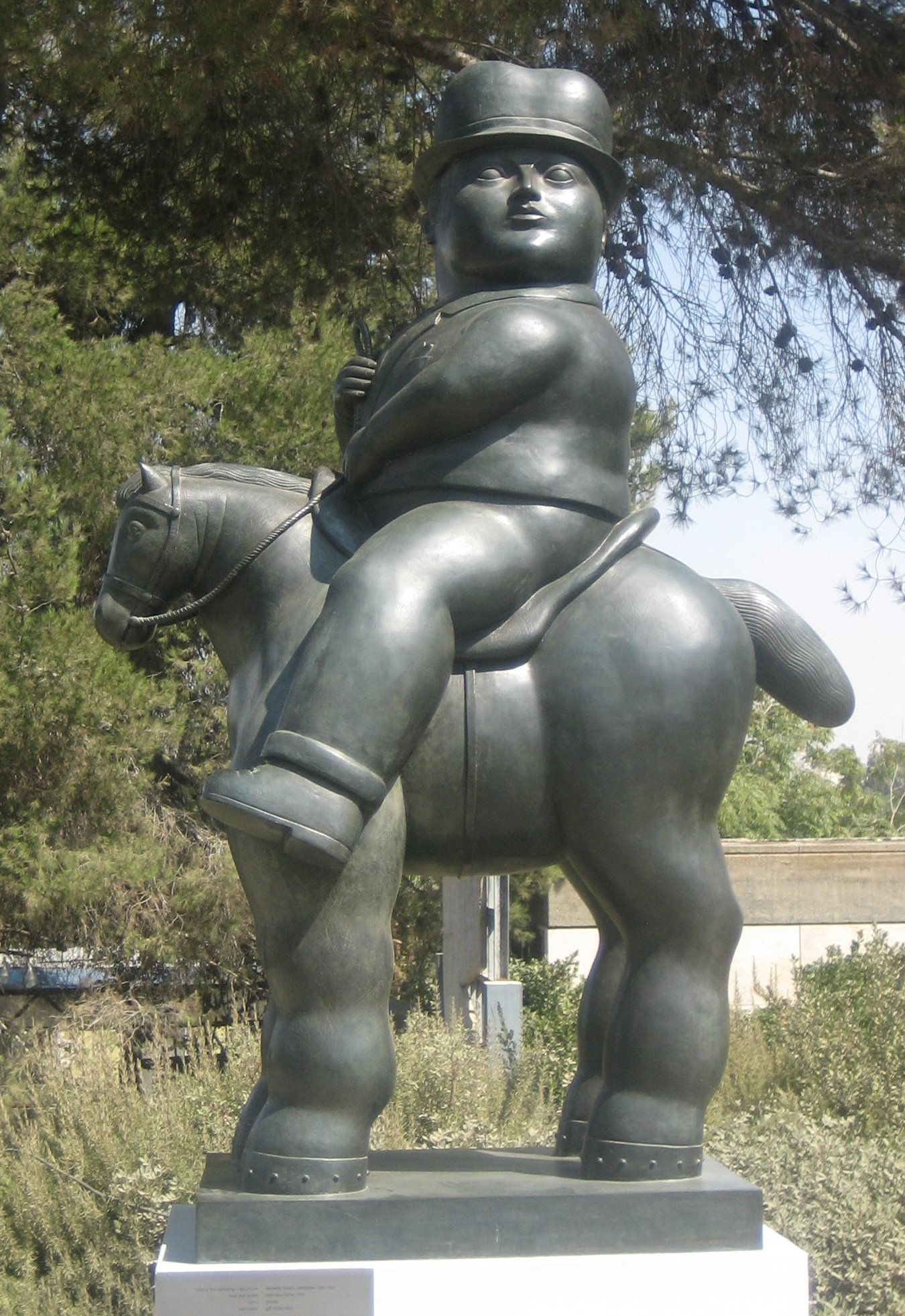 'Man on Horse', bronze sculpture by Fernando Botero (Colombian), 1992, Israel Museum, Jerusalem, Israel